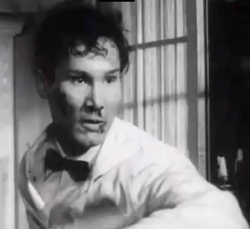 Henry Silva in trailer for "The Manchurian Candidate" (1962)